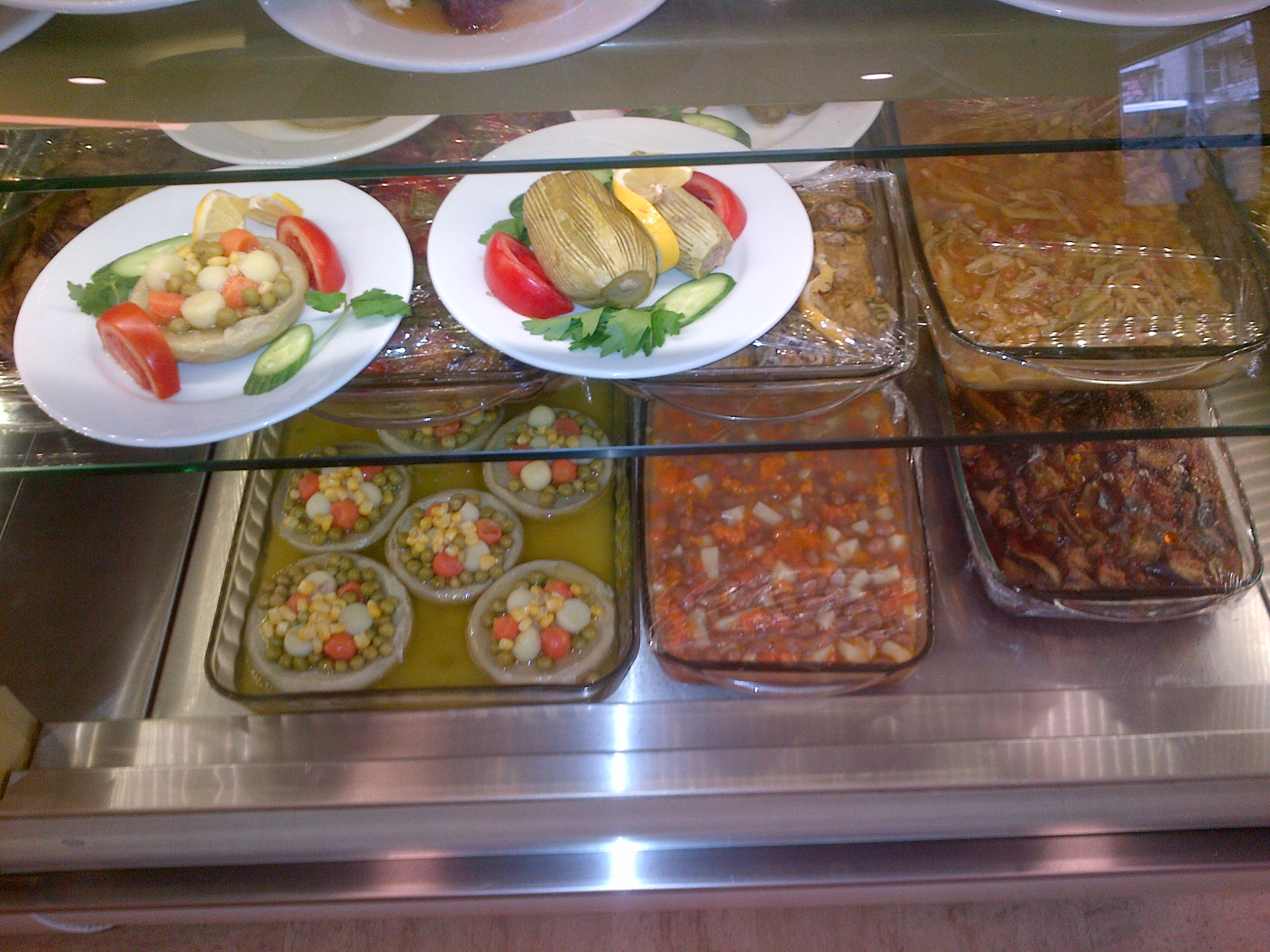 Cold starters ("zeytinyağlılar" in Turkish language and cuisine) at the traditional Boğaziçi Restaurant, Ankara.